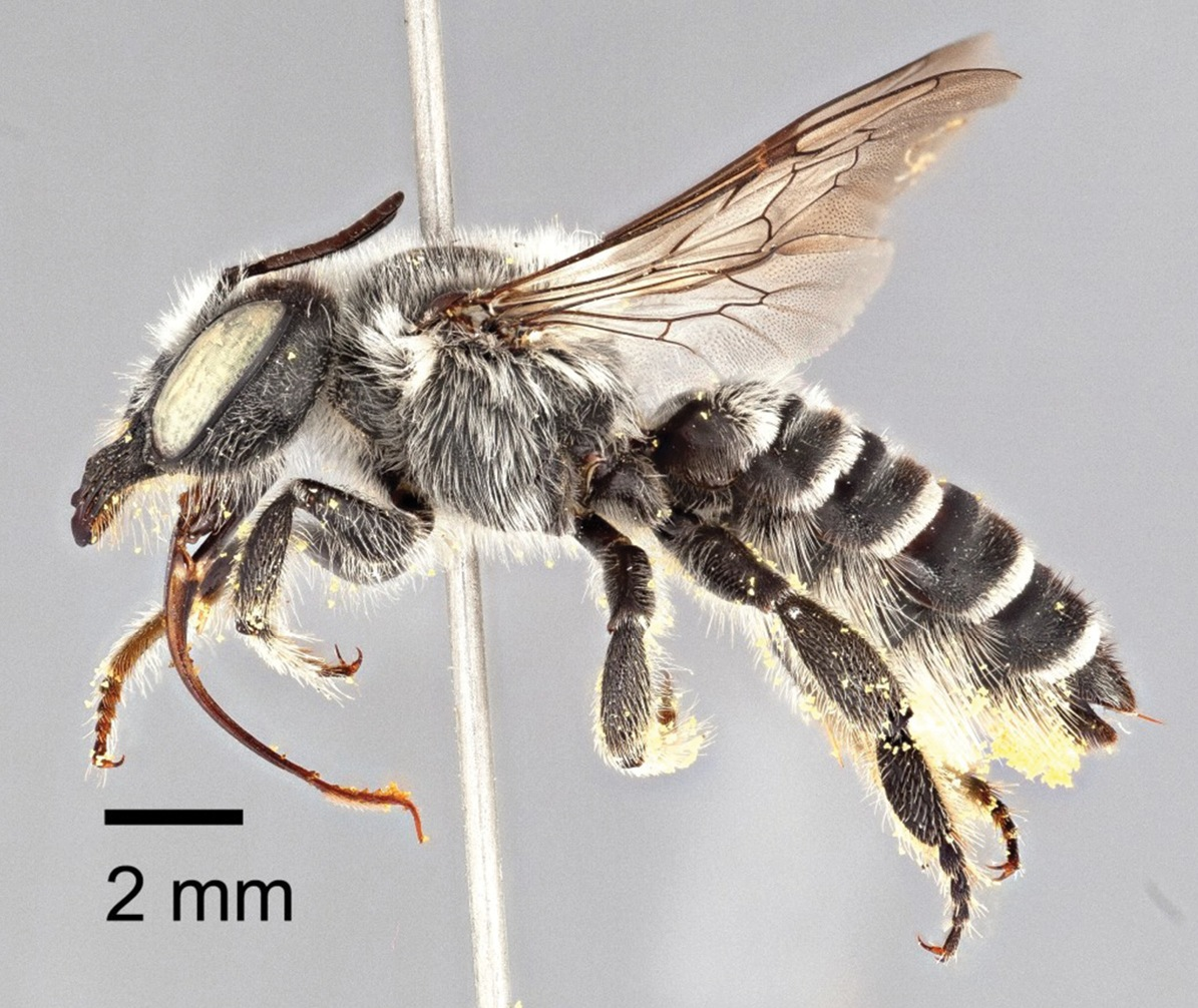 Female Megachile (Megachiloides) chomskyi (paratype), lateral habitus.